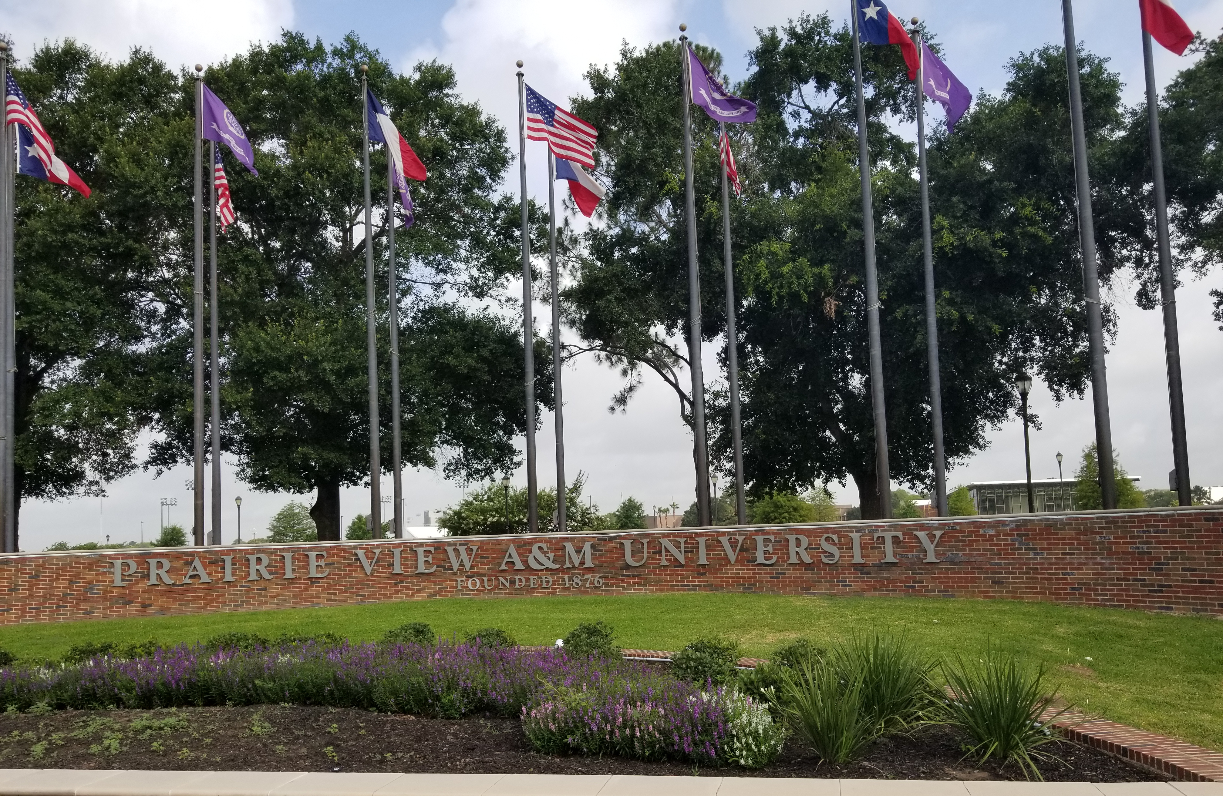 PVAMU entrance